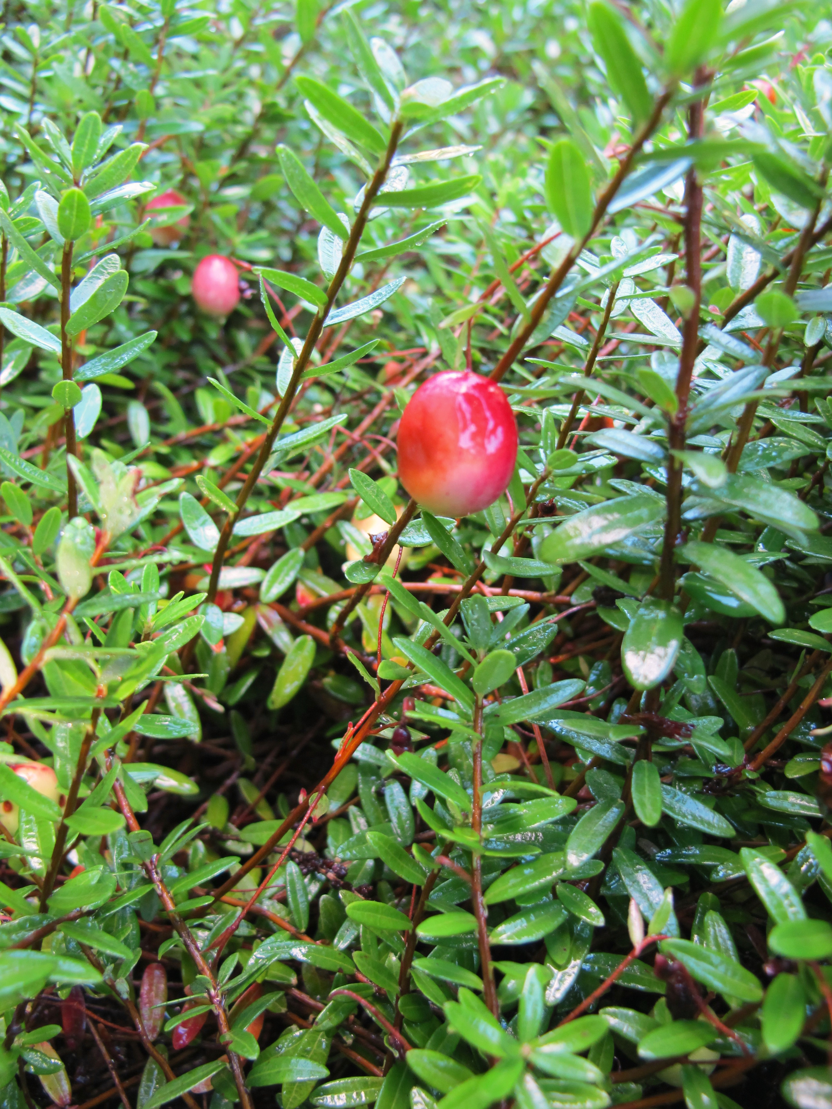 Vaccinium macrocarpon (large-fruited cranberry) at New York Botanical Garden